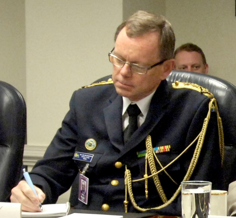 Maj. Gen. Bo Waldemarsson in the Pentagon on April 13, 2007.